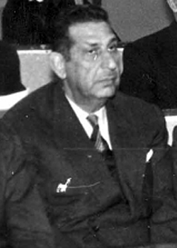 Iraqi former Prime-Minister Ahmad Mukhtar Baban